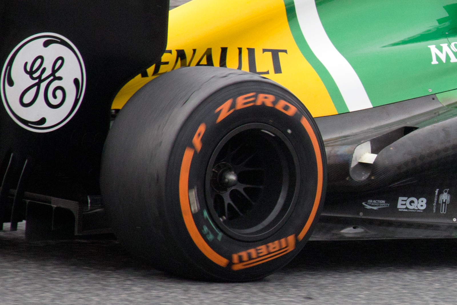 Formula One 2013 Catalonia test (19-22 February): Caterham CT03's exhaust channel with air-flow conditioner, and diffuser